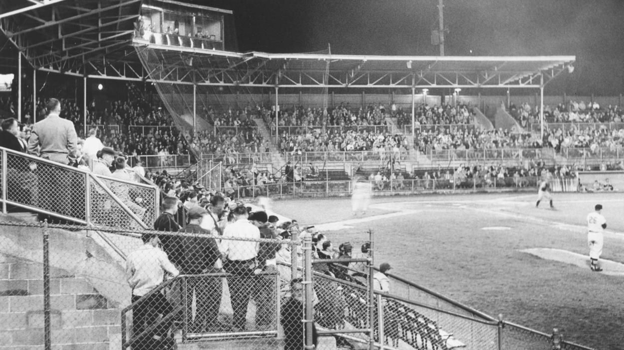 Max Hess (Braeden Field) at the time of the Allentown Red Sox